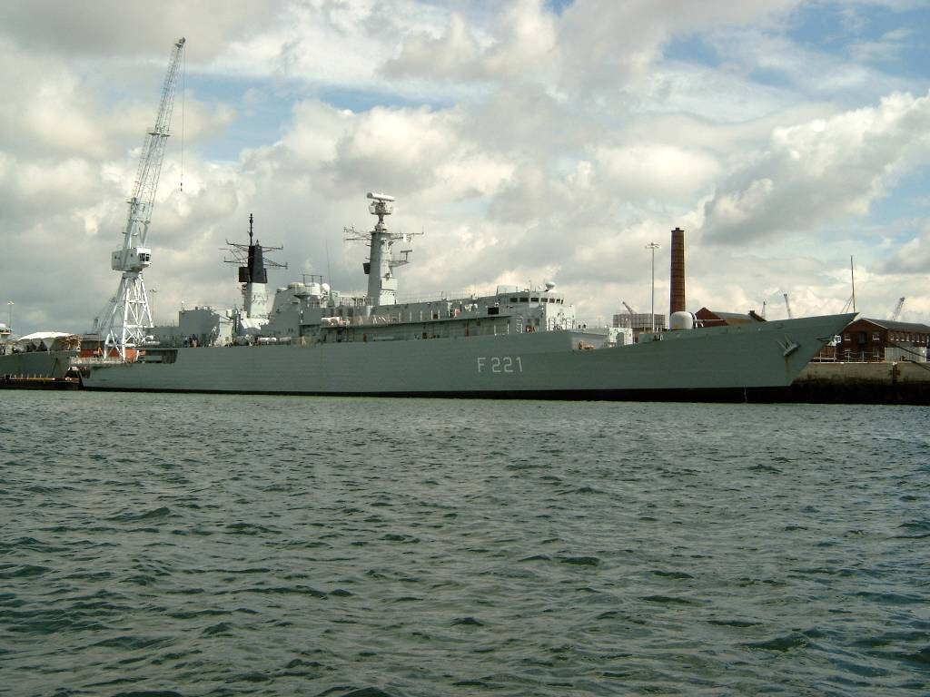 Romanian frigate Regele Ferdinand at the Trafalgar 200th Anniversary.